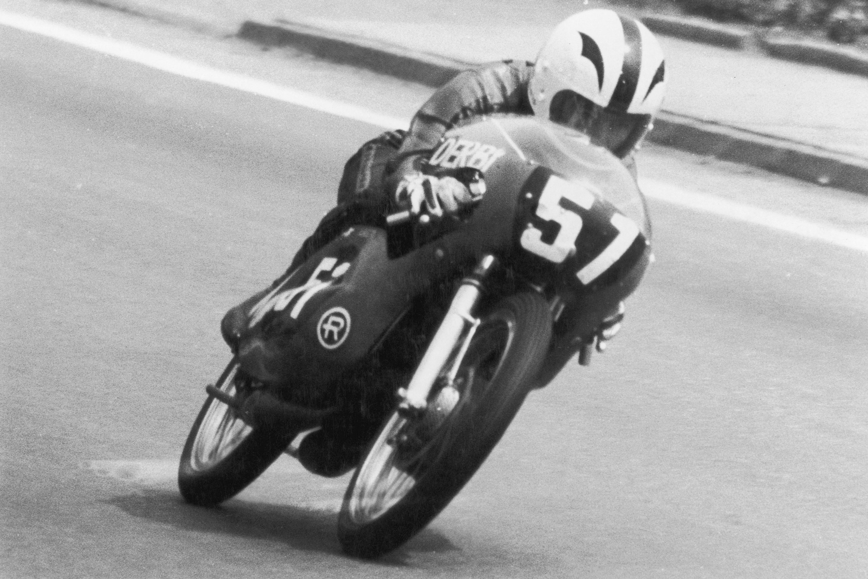 Ángel Nieto, riding his 125cc Derbi at the 1972 Czechoslovakian Grand Prix.